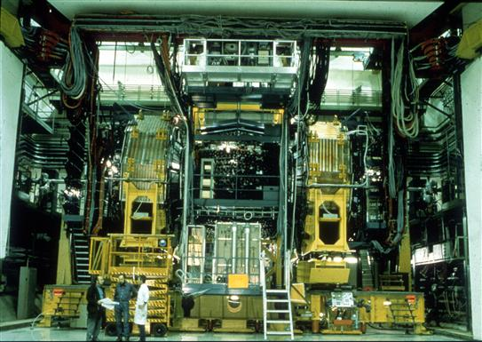 Detector for the UA2 experiment, for the study of proton-antiproton collisions in the SPS. The picture shows the detector after the 1985 upgrade, when new end-cap calorimeters were added.